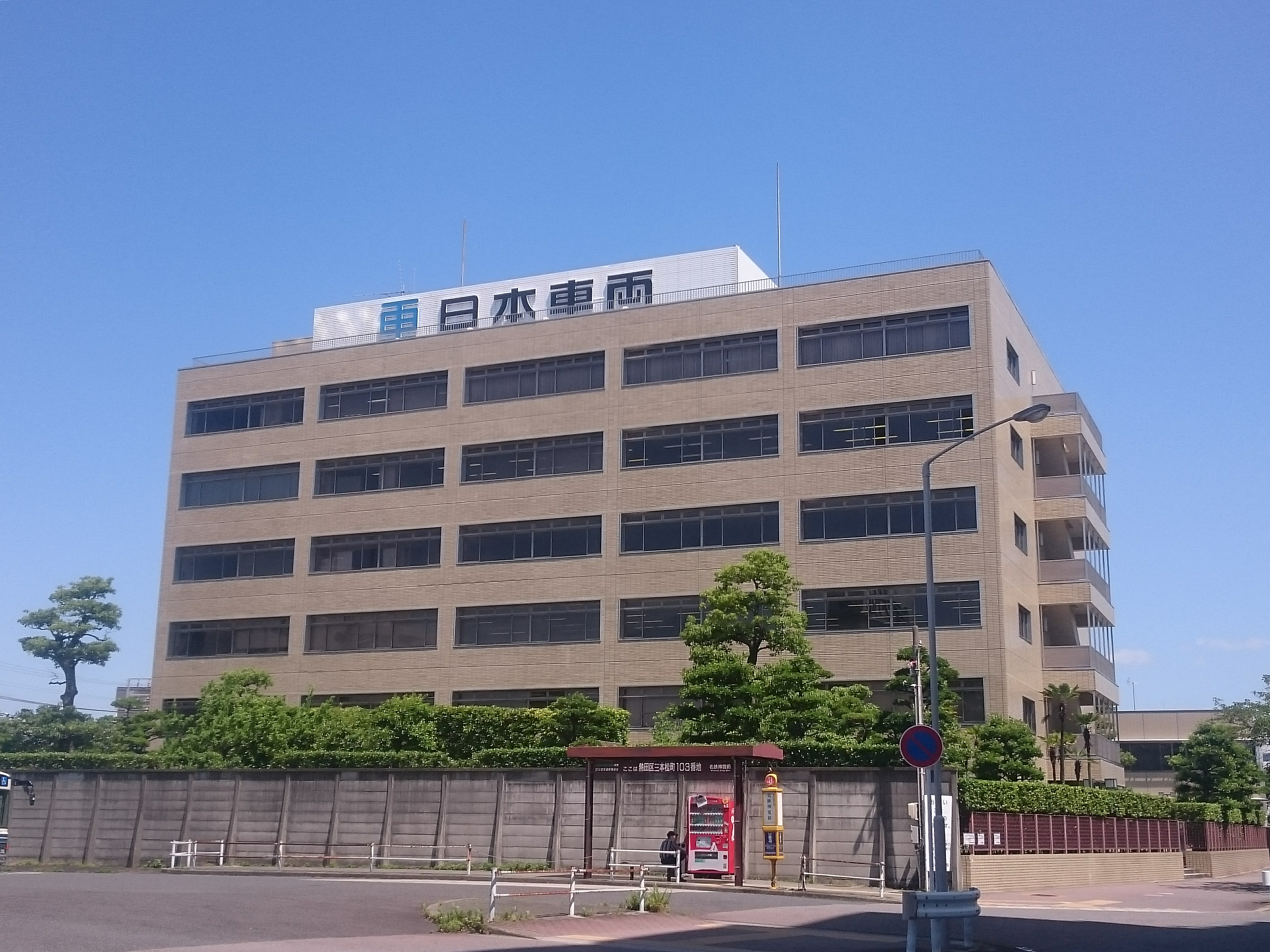 Nippon Sharyo headquarters, at 1-1 Sanbonmatsu-chō, Atsuta, Nagoya, Aichi, Japan